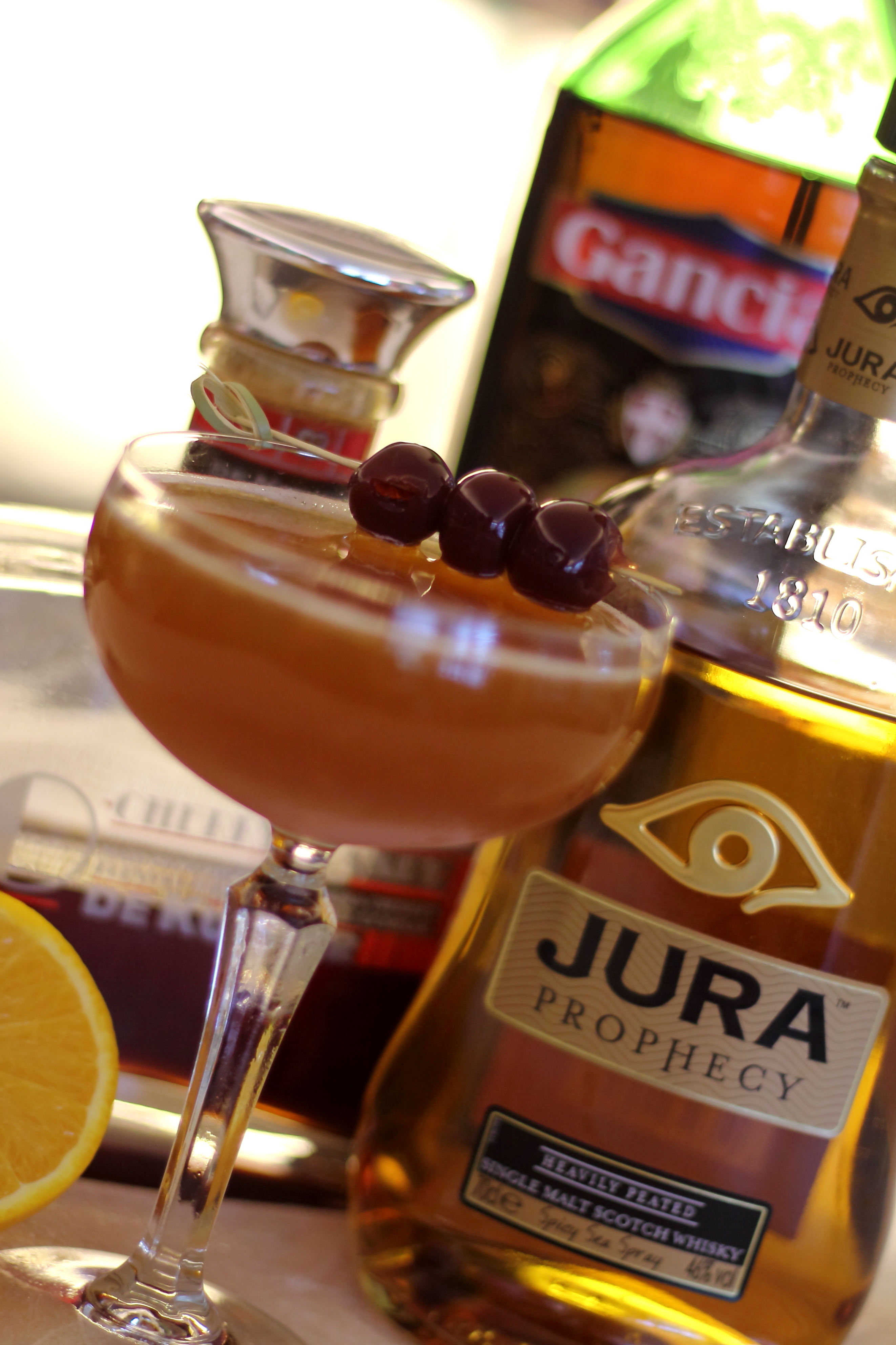 Classic cocktail Blood and Sand, garnished with three cocktail cherries.